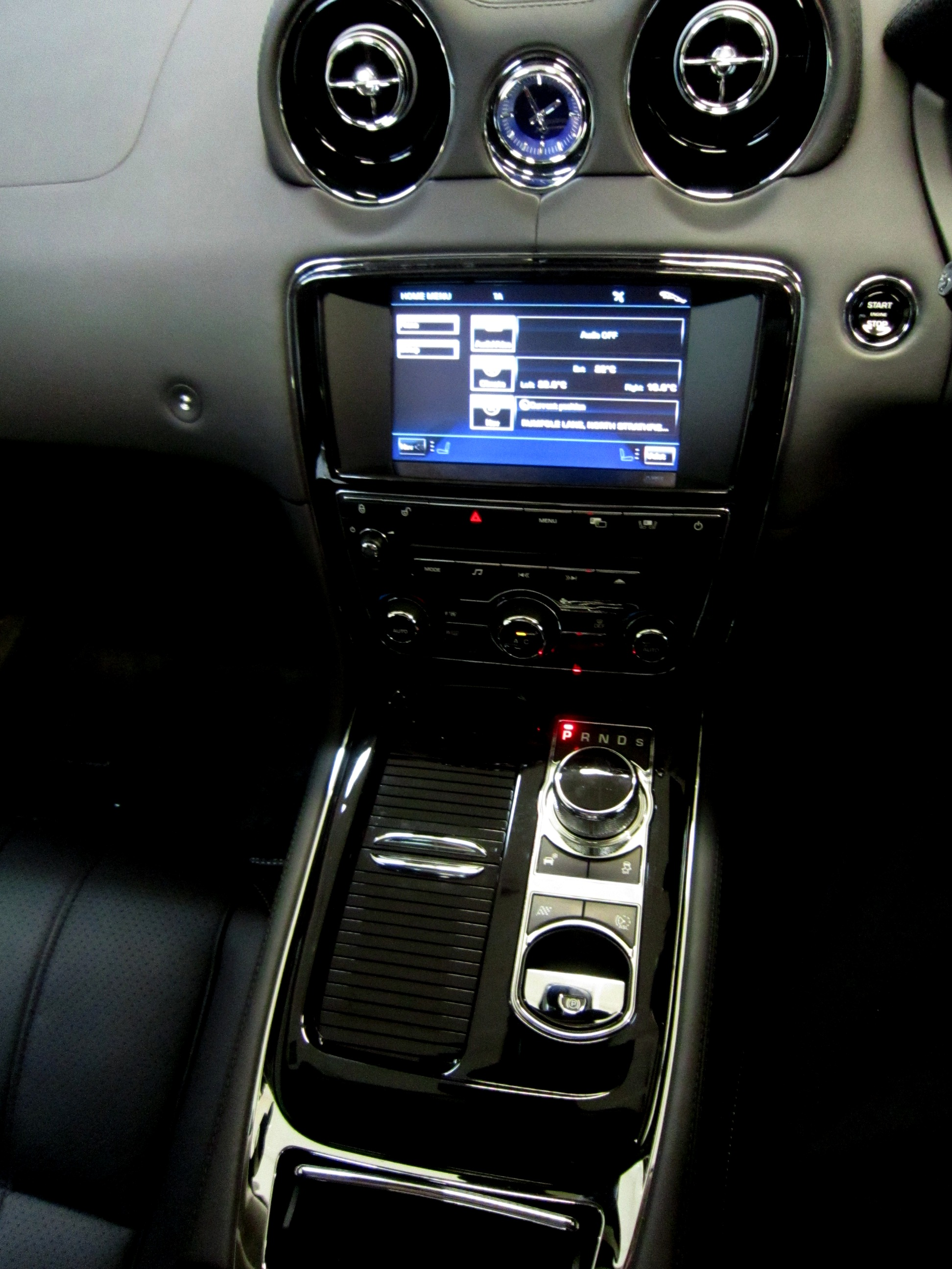 Touch screen dual view technology can project DVD Movies whilst the driver views vehicle functions such as SatNav. You can check out the full review of the Jaguar XJ Supersport here at; NRMA Drivers Seat